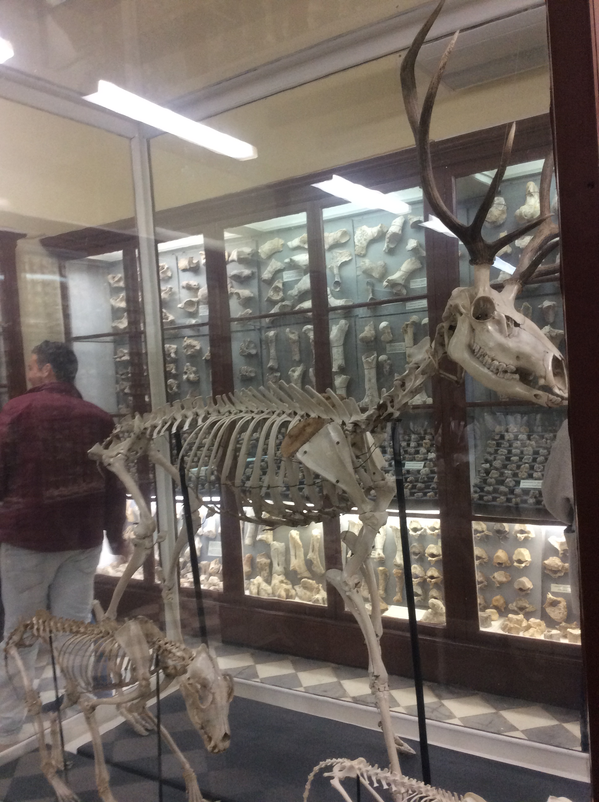 Red Deer skeleton found at Ghar Dalam, Malta, now at Ghar Dalam Museum